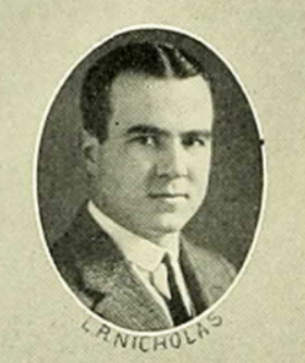 Major LR Nicholas yearbook photo from the 1922 Georgia Tech yearbook. Alpha Kappa Psi.